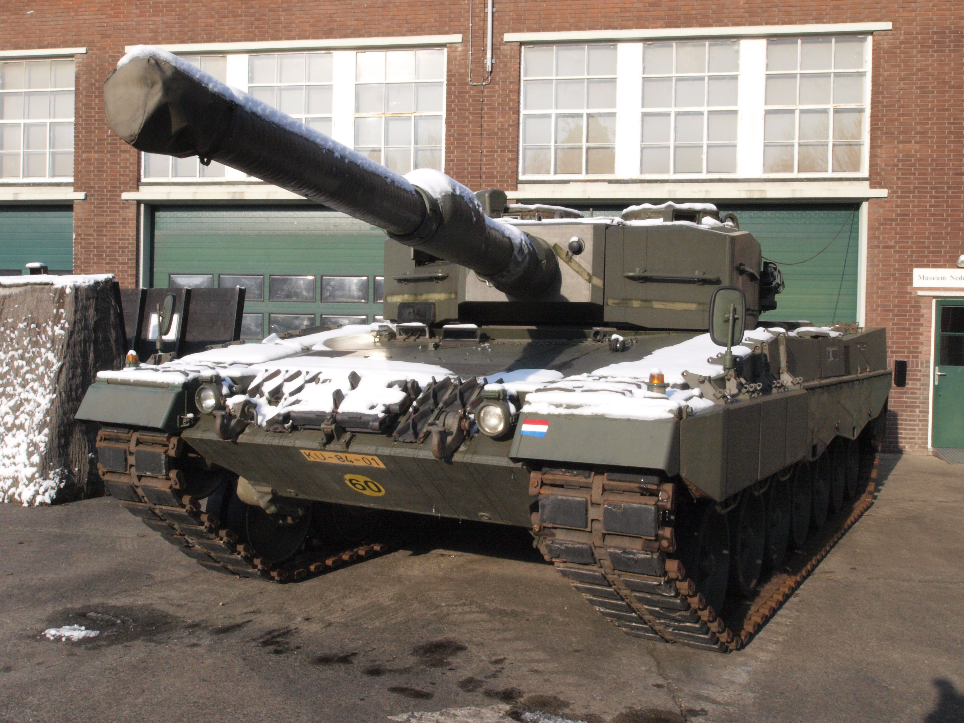 Leopard 2A4 Dutch army 12002 KU-84-01